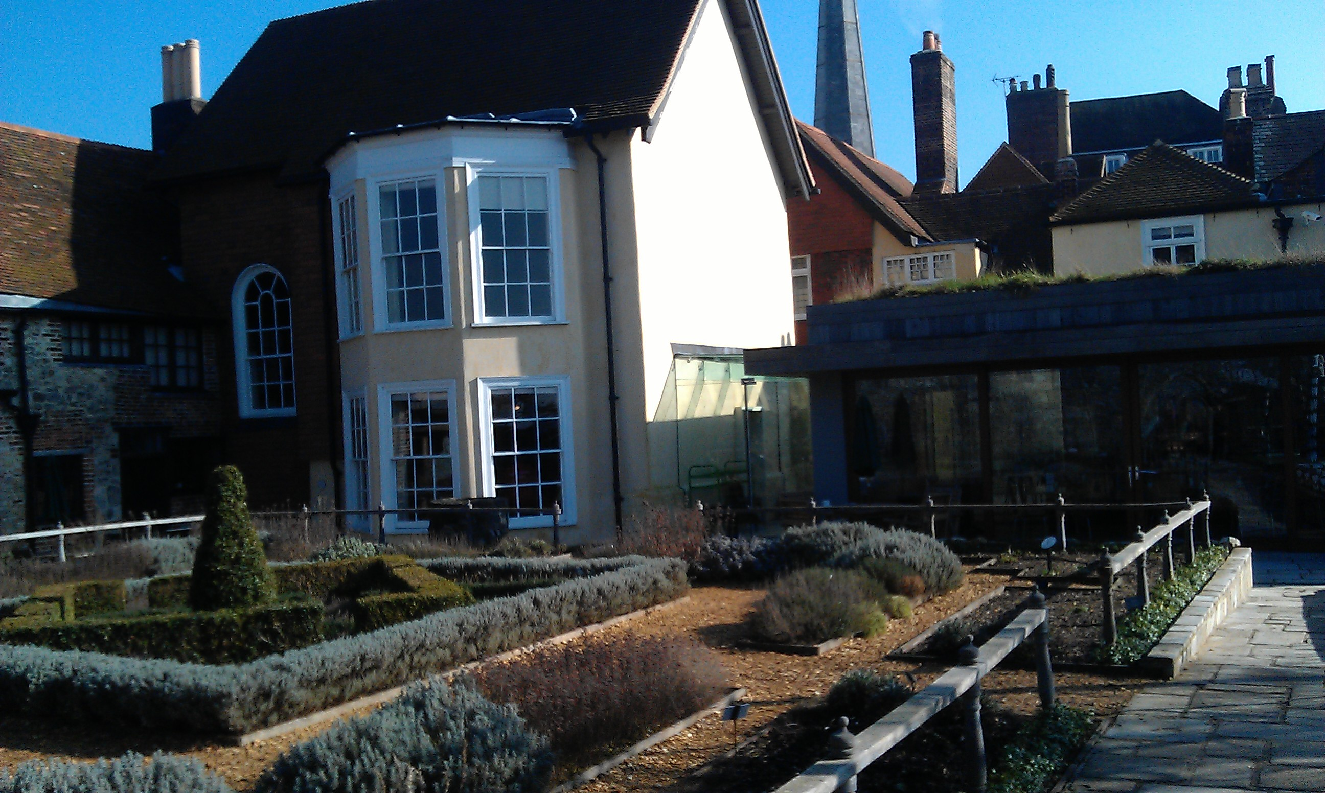 Southampton Tudor House's garden, taken in February 2013.